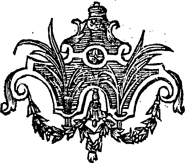 Fleuron from book: Pièces libres de M. Ferrand, et poësies de quelques autres auteurs sur divers sujets.